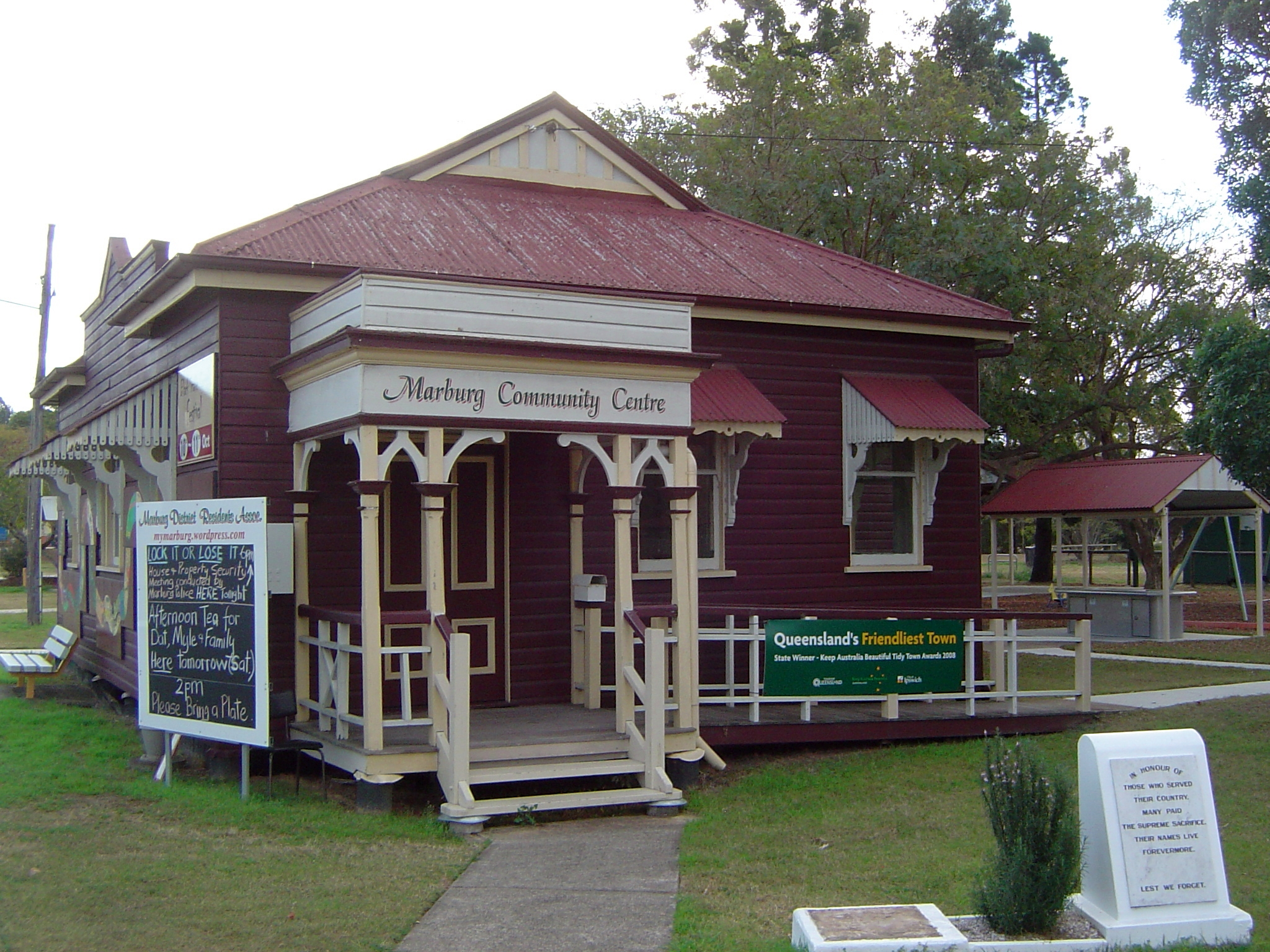 Photo of Marburg Community Centre at Marburg, Ipswich, Queensland, Australia.